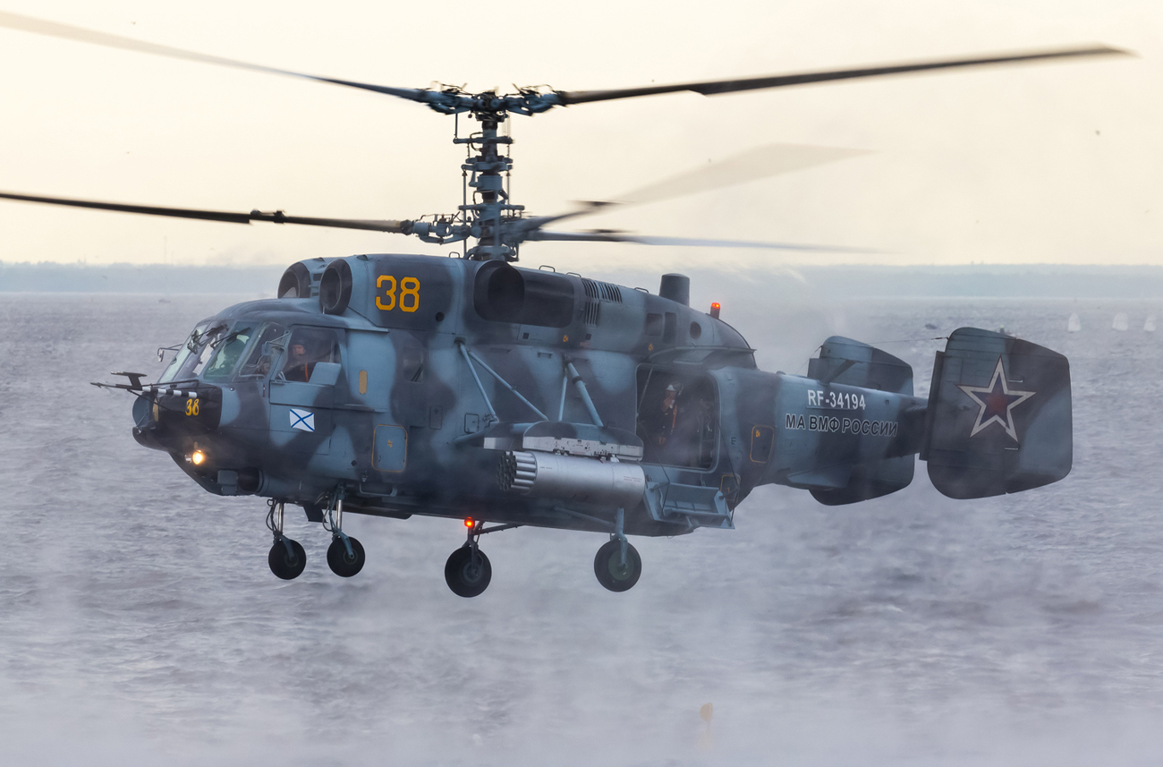 Kamov Ka-29 in fight